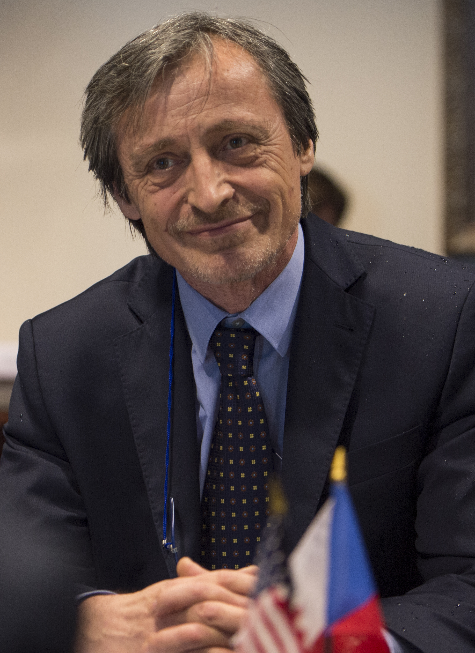 Secretary of Defense Chuck Hagel hosted an honor cordon to welcome the Czech Republic's Minister of Defense Martin Stropnicky at the Pentagon April 29, 2014. Official DoD photo by Sgt. Aaron Hostutler USMC (Released).